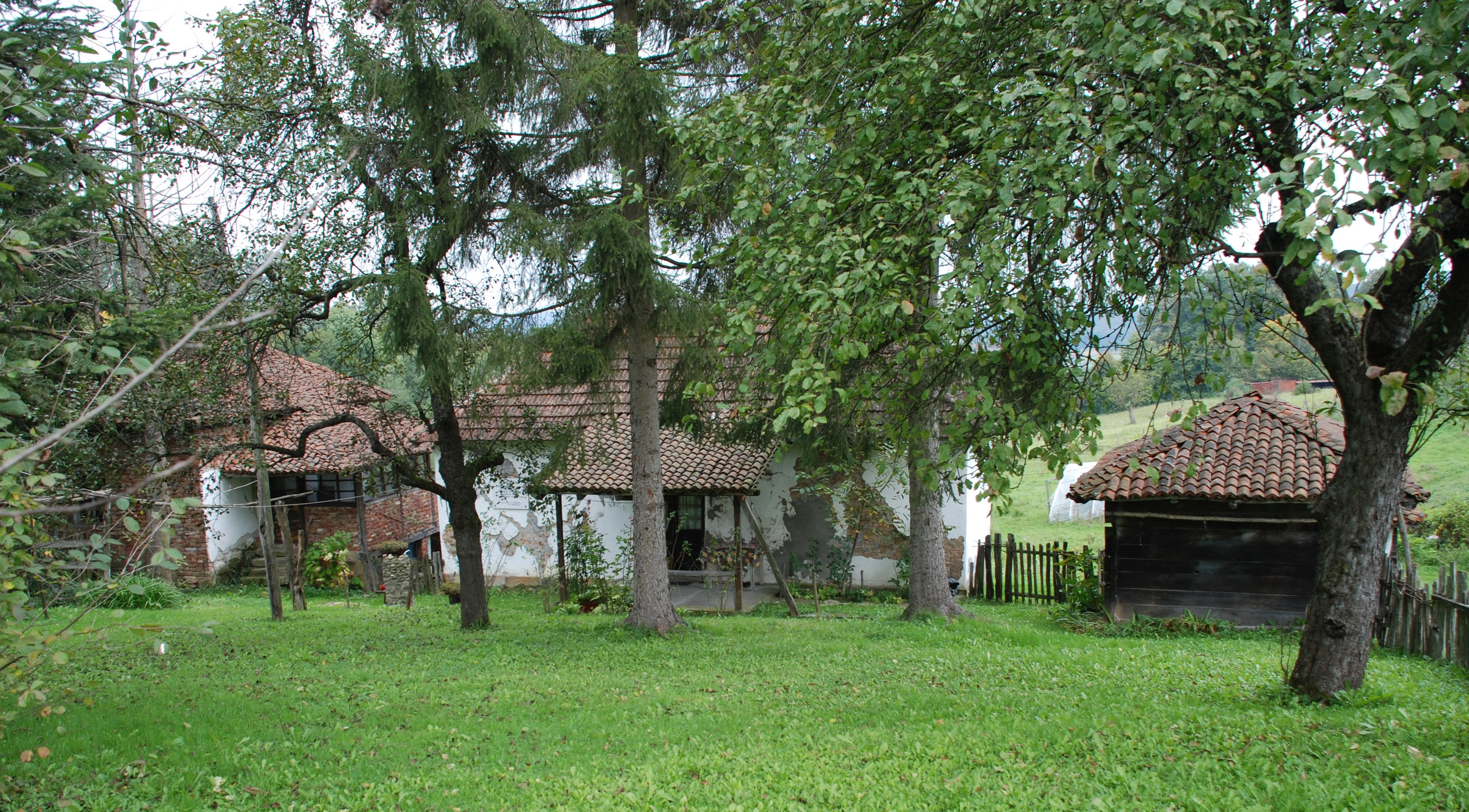 House of national hero Tihomir Matijević in Lunjevica, Gornji Milanovac